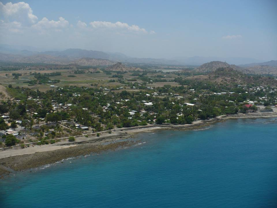 Overhead shot of Manatuto taken while flying south west along the coast